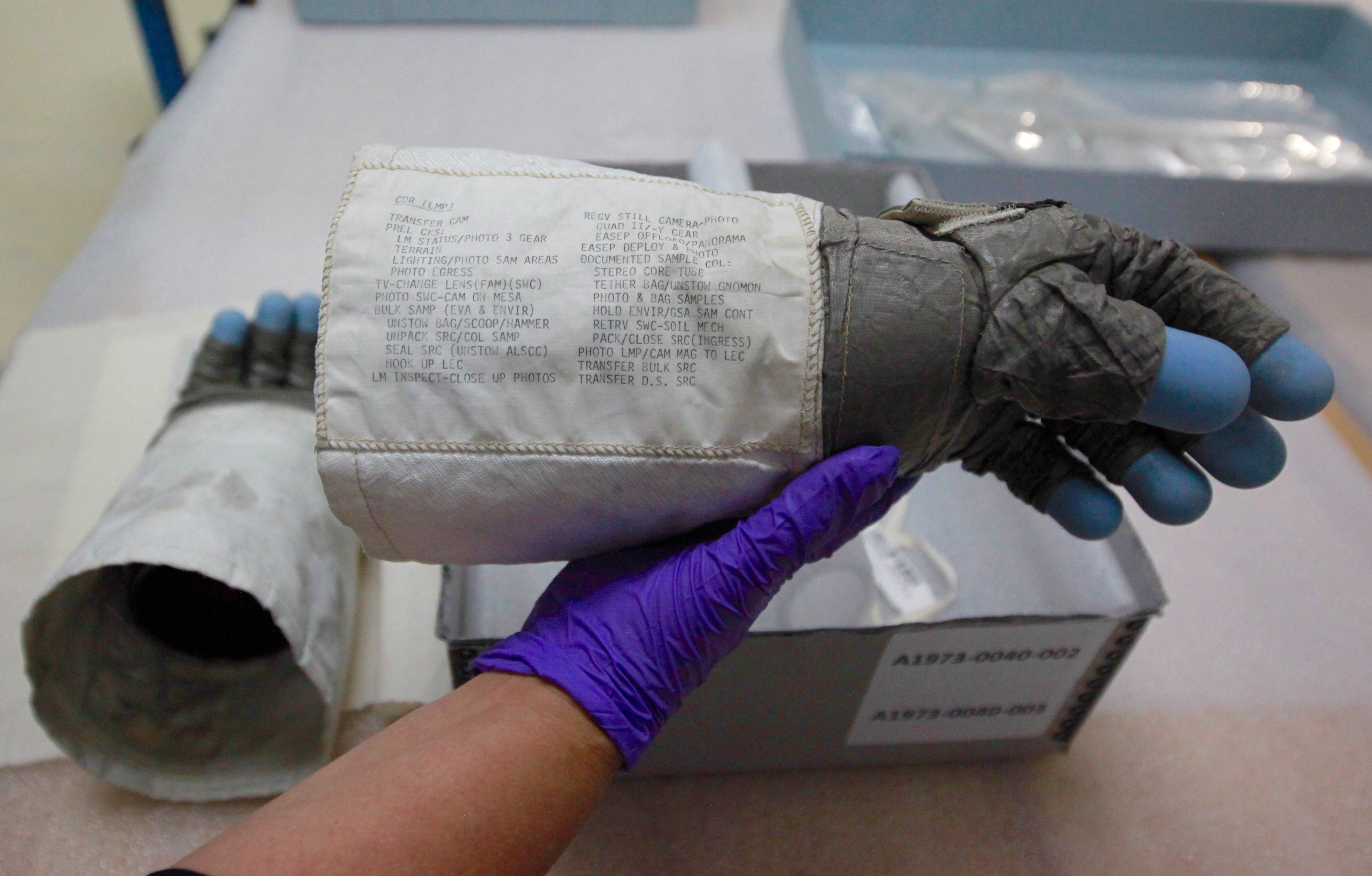 From the backstage tour of the Smithsonian restoration labs, where they have the batch of Neil Armstrong artifacts that he brought back from the lunar module Eagle, contrary to protocol, and recently discovered in his closet at home.